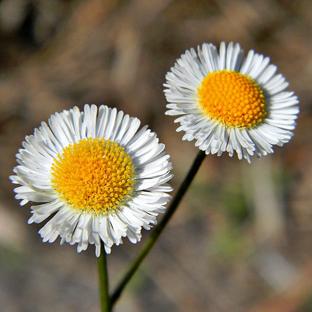 Erigeron quercifolius at Sweetbay Natural Area, Palm Beach County, Florida. These were being visited by many happy beetles and bees.